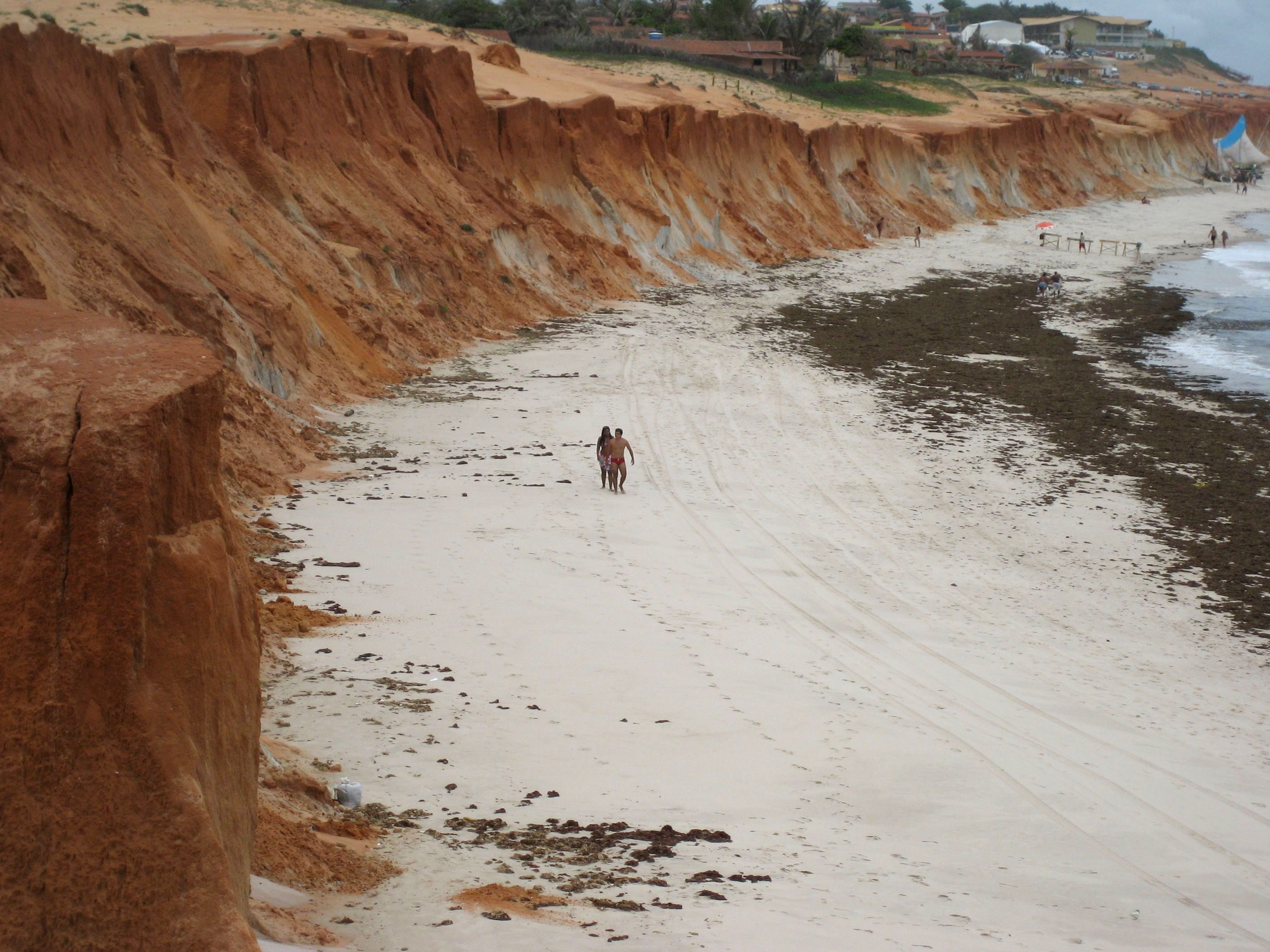 Canoa Quebrada Cliff